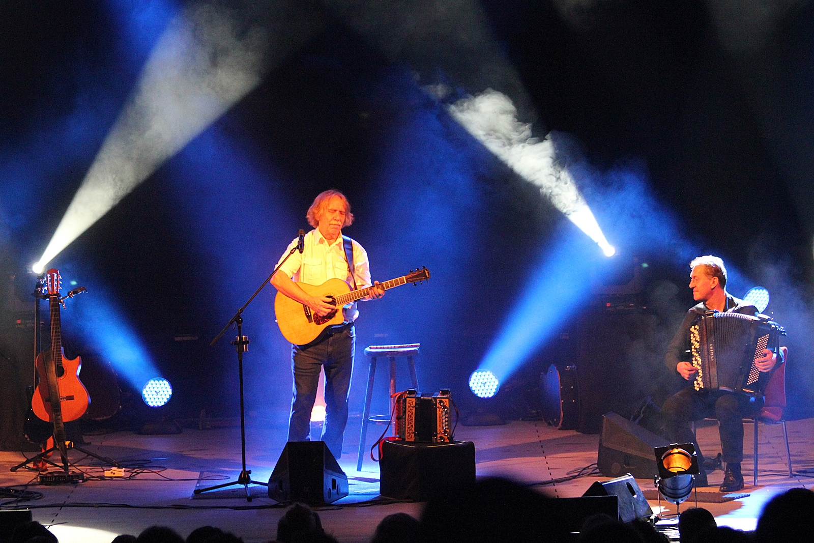 Jaromír Nohavica, accordion player Robert Kusmierski, concert in Ostrawa-Poruba